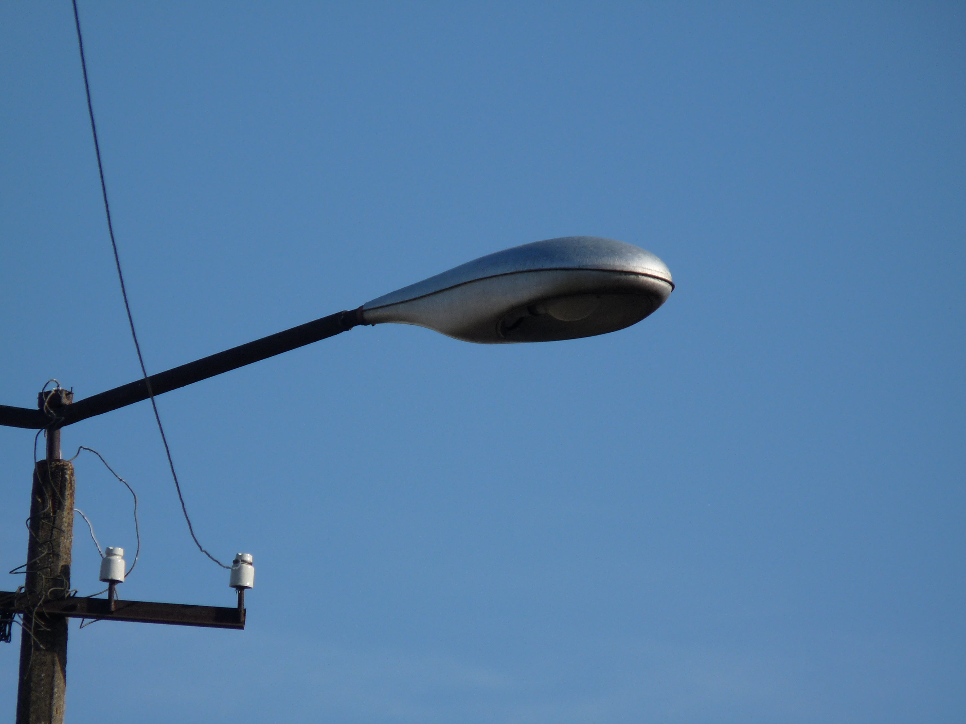 Streetlamp saved from Soviet times in Tallinn, Estonia. Model: 211-1998-51